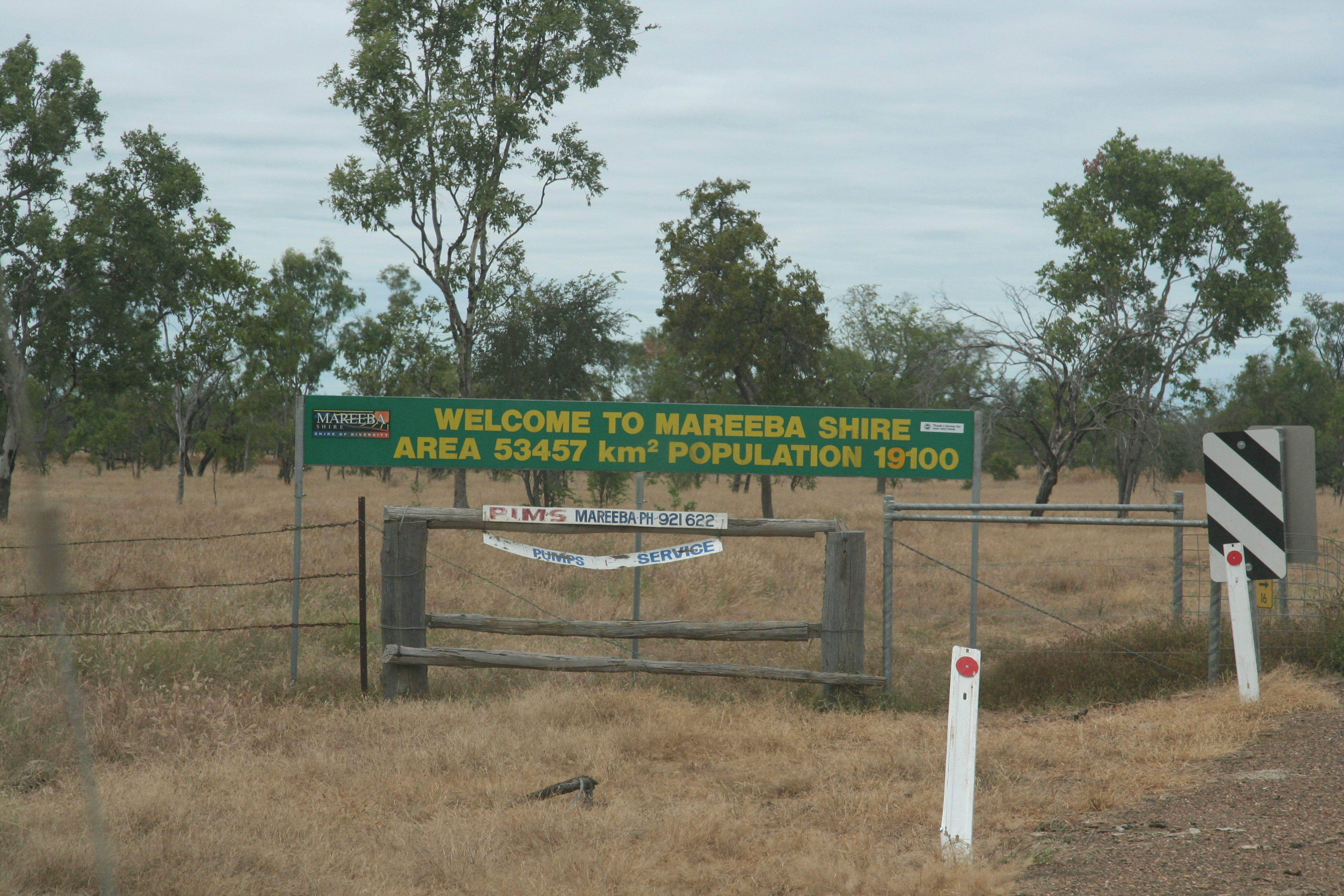 Entering Mareeba Shire while eastbound on the Burke Developmental Road